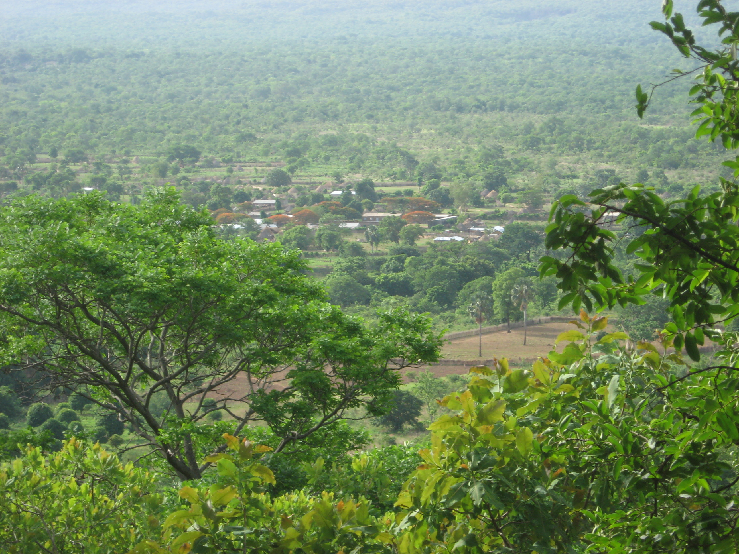 Dindefelo, Eastern Senegal)